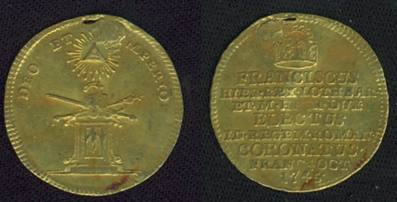 Commemorative medal in honor of Holy Roman Emperor Francis I's coronation in 1745. Obverse: "DEO ET IMPERIO" (for God and the Empire), the all-seeing eye of god and regalia of the Holy Roman Empire (crown, sword, orb, sceptres) Reverse: "FRANCISCUS HIER[OSOLYMARUM] REX LOTH[ARINGIAE] BAR ET M[AGNUS] HETR[URIAE] DUX ELECTUS IN REGEM ROMAN[ORUM] CORONATUS FRANC[OFURTUM] 4 OCT[OBER] 1745" (Francis, King of Jerusalem, Duke of Lorraine and Bar and Grand Duke of Tuscany, elected as King of the Romans, crowned at Frankfurt October 4th, 1745) and the imperial Crown. Ø 21 mm